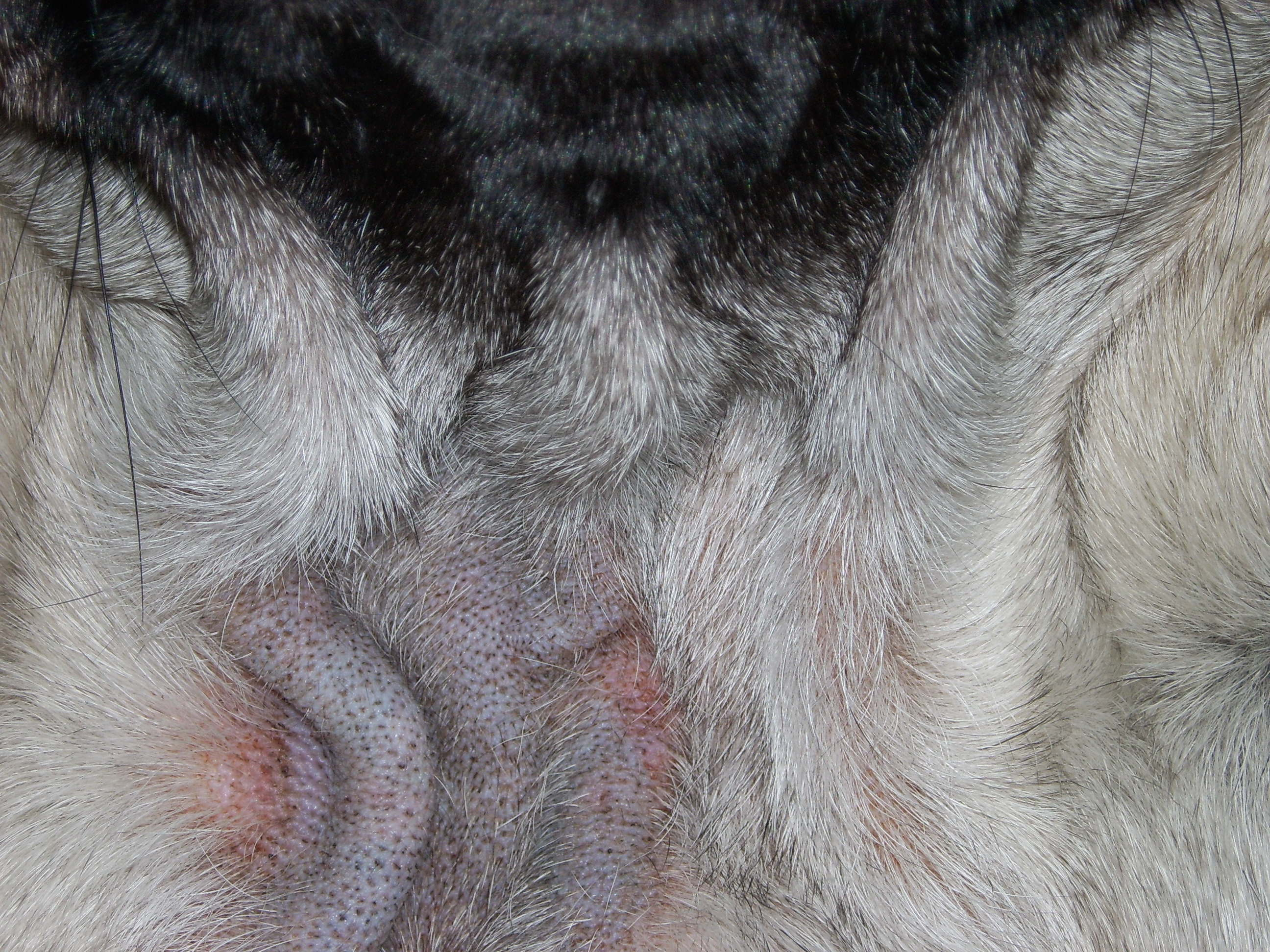 Demodicosis in a dog